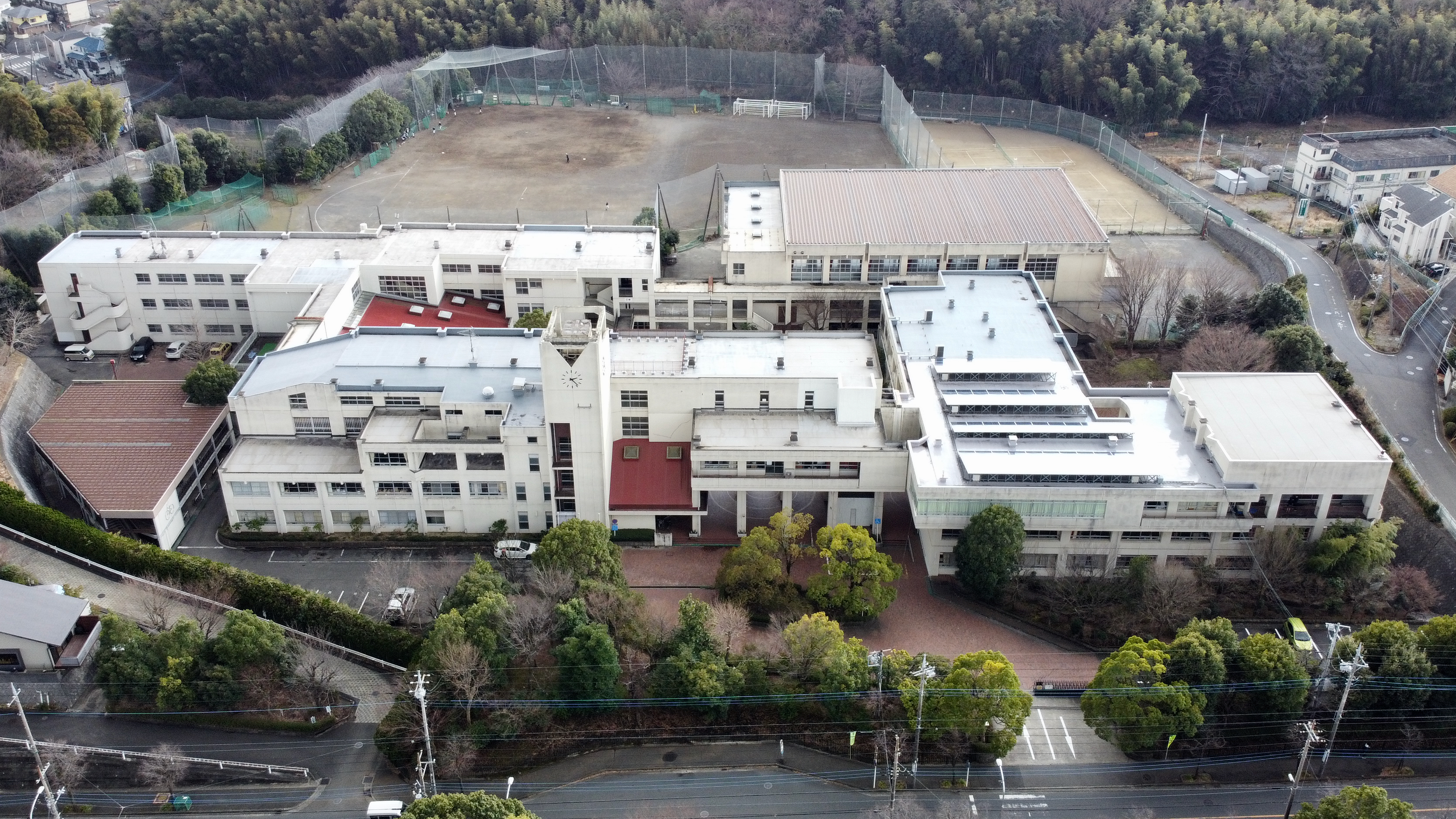 Aerial view of Motoishikawa High School shot on Mavic Mini